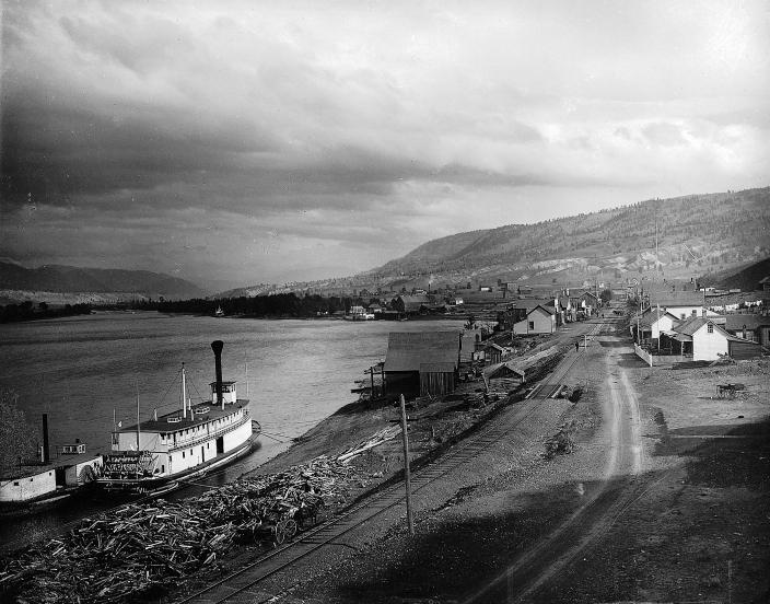 Photograph, Kamloops on the C.P.R., BC, 1887, William McFarlane Notman, Silver salts on glass - Gelatin dry plate process - 20 x 25 cm